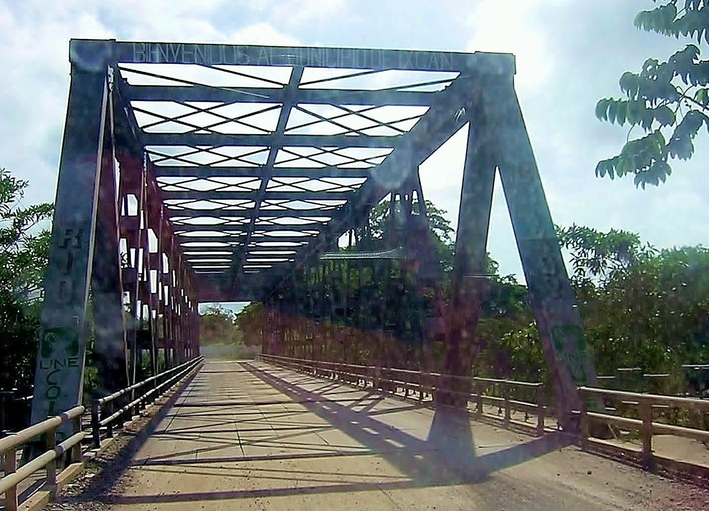 Bridge over Chixoy river Ixcán,Guatemala